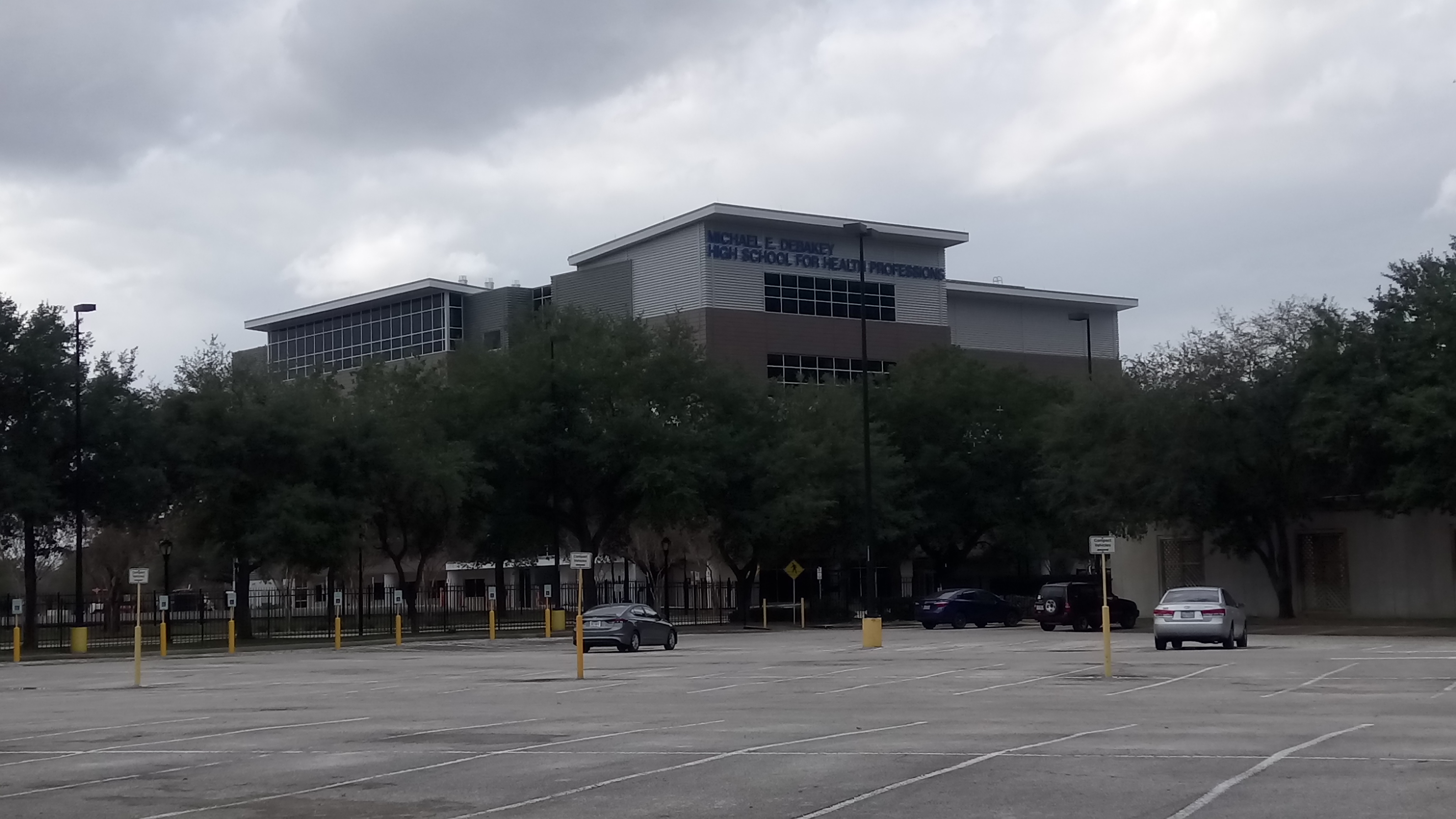 Current campus of the DeBakey High School for Health Professions (opened 2017)